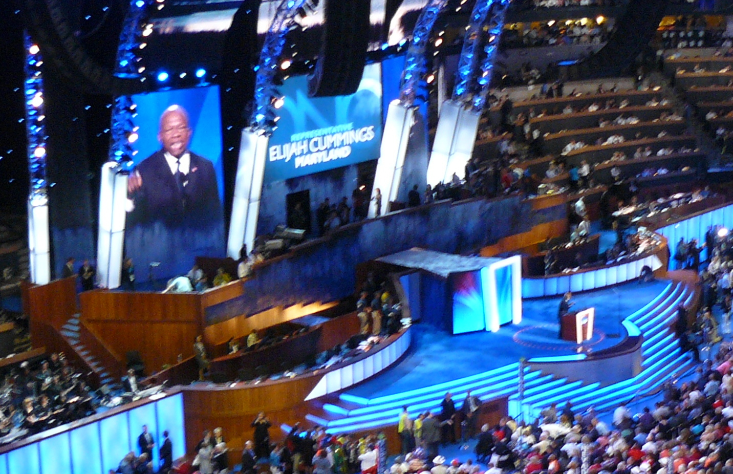 Looking onto the Floor